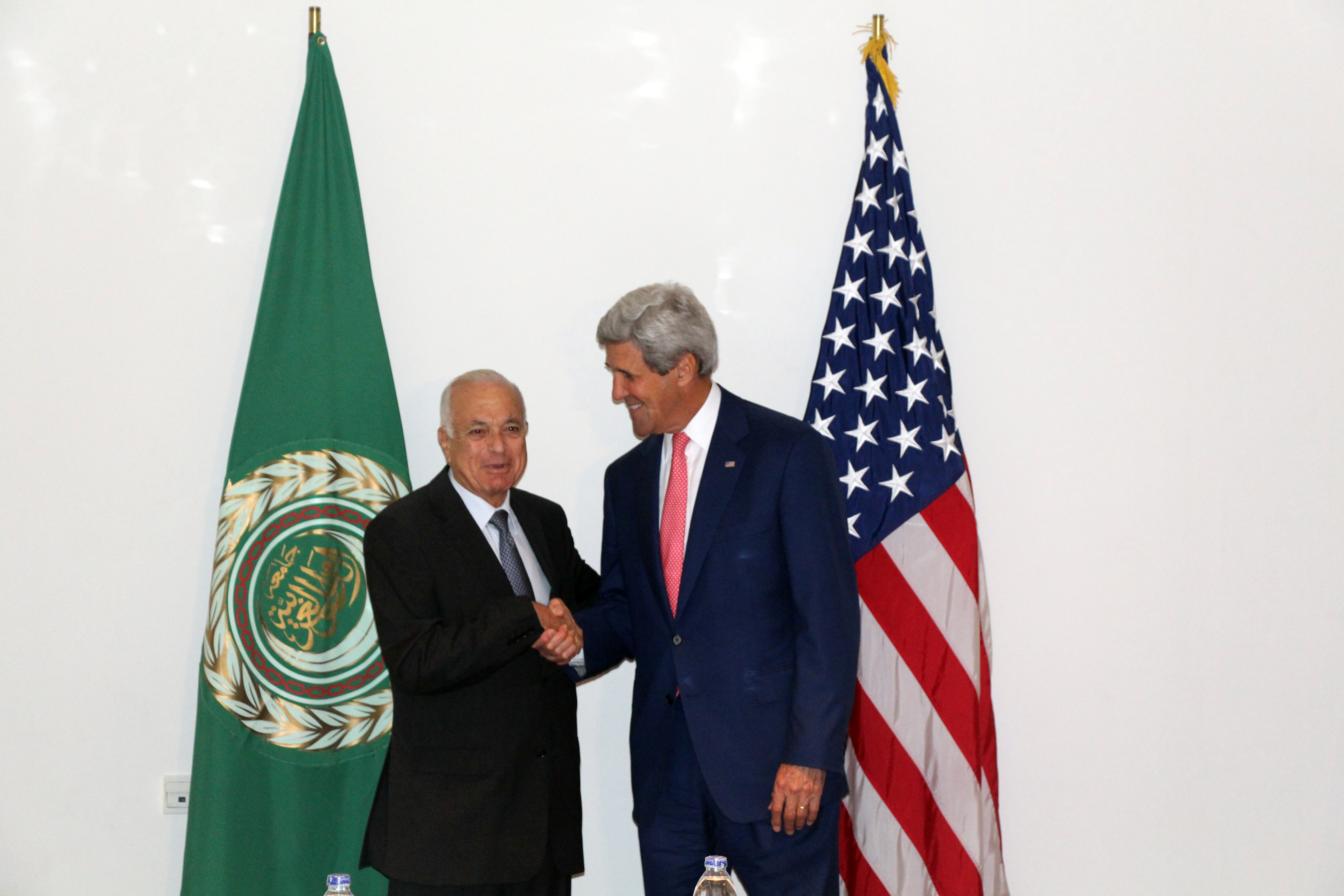 U.S. Secretary of State John Kerry meets with Arab League Secretary-General Nabil al-Araby, in Cairo, Egypt, September 13, 2014. [State Department photo/ Public Domain]